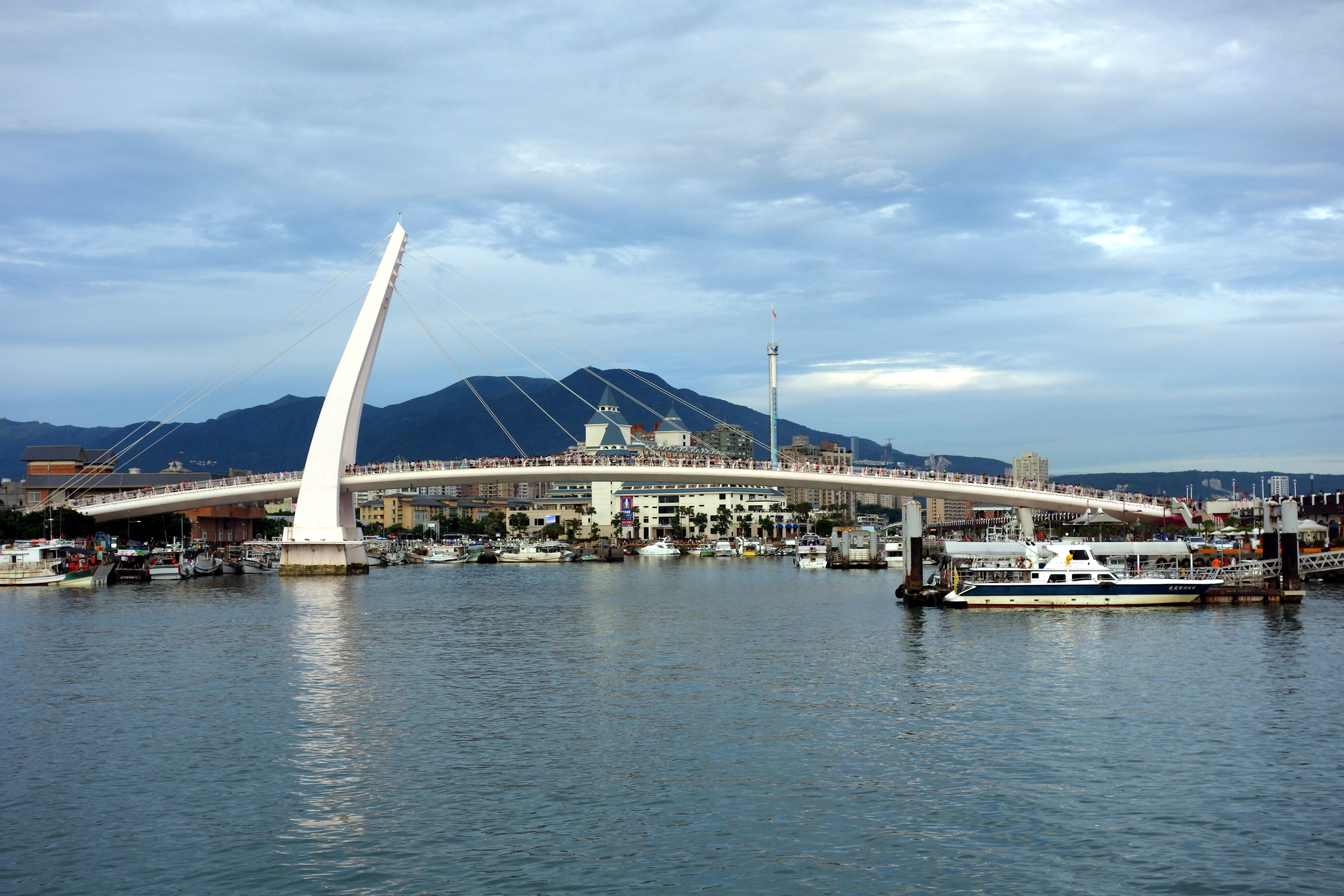 Lover Bridge of Tamsui